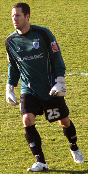 Mark Tyler. Image cropped from original at flickr.